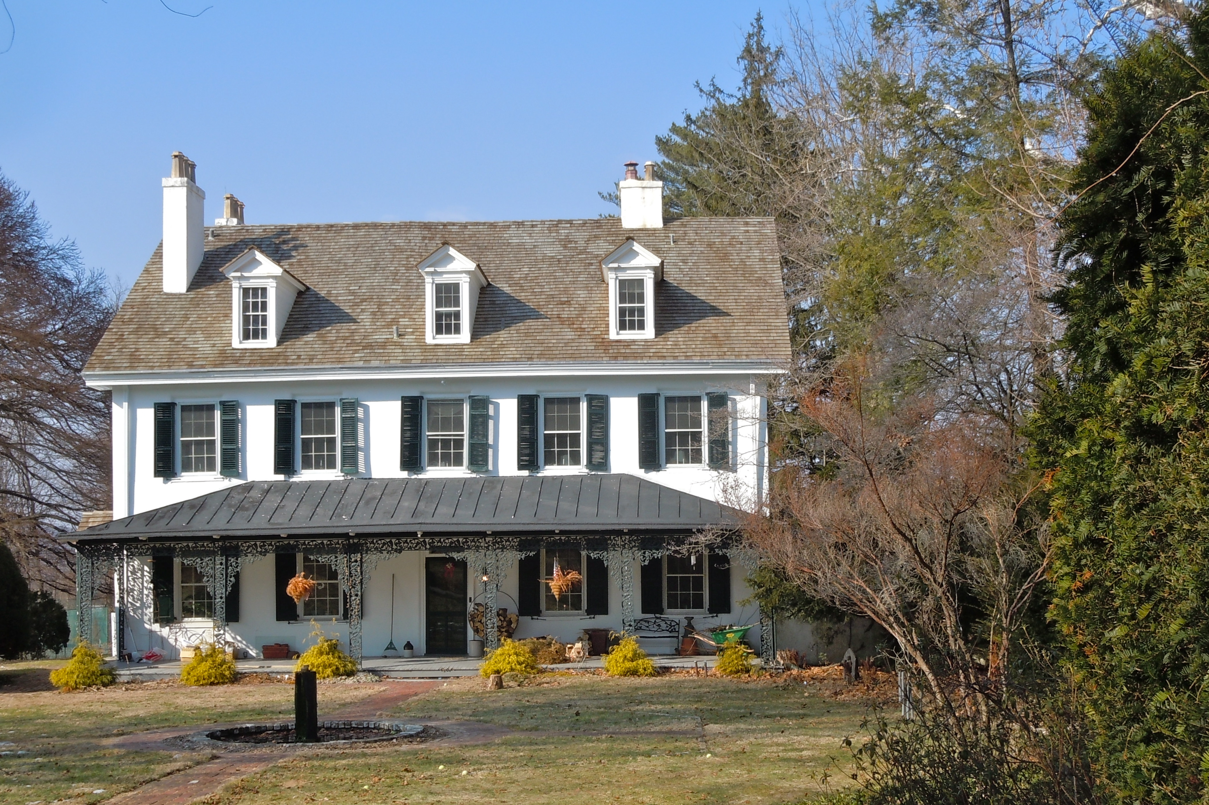 Greenwood Farm on the NRHP since October 24, 1996 at 888 West Valley Drive near Wayne, Tredyffrin Township, Chester County, Pennsylvania